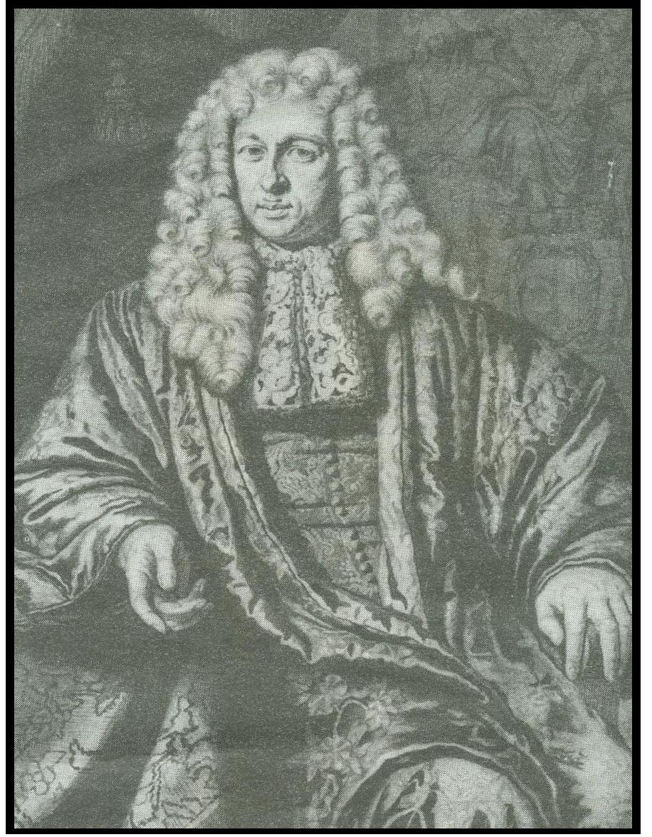 Portrait of Nicolaes Witsen